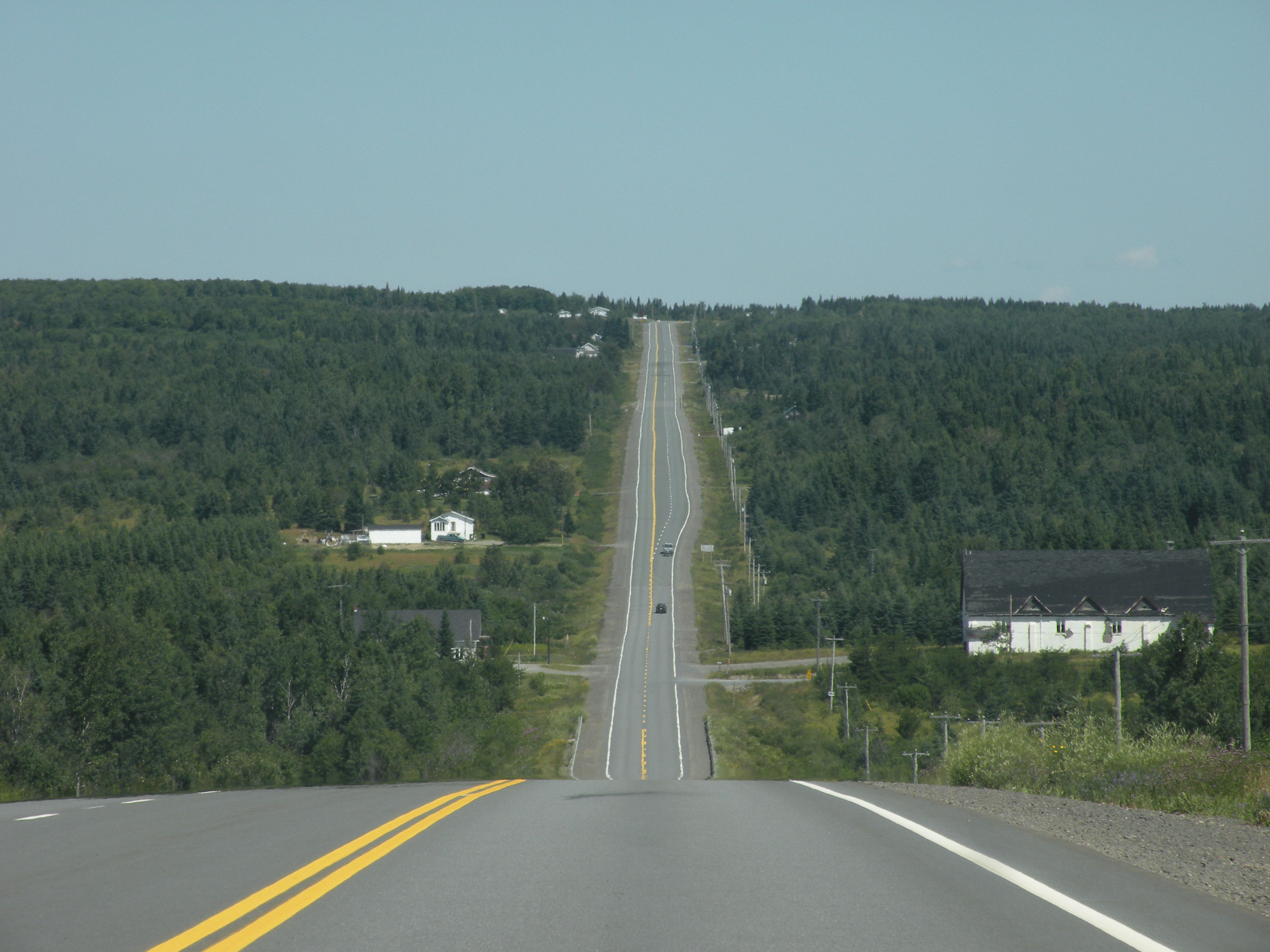 A view of Whites Brook and route 17, New Brunswick, Canada.